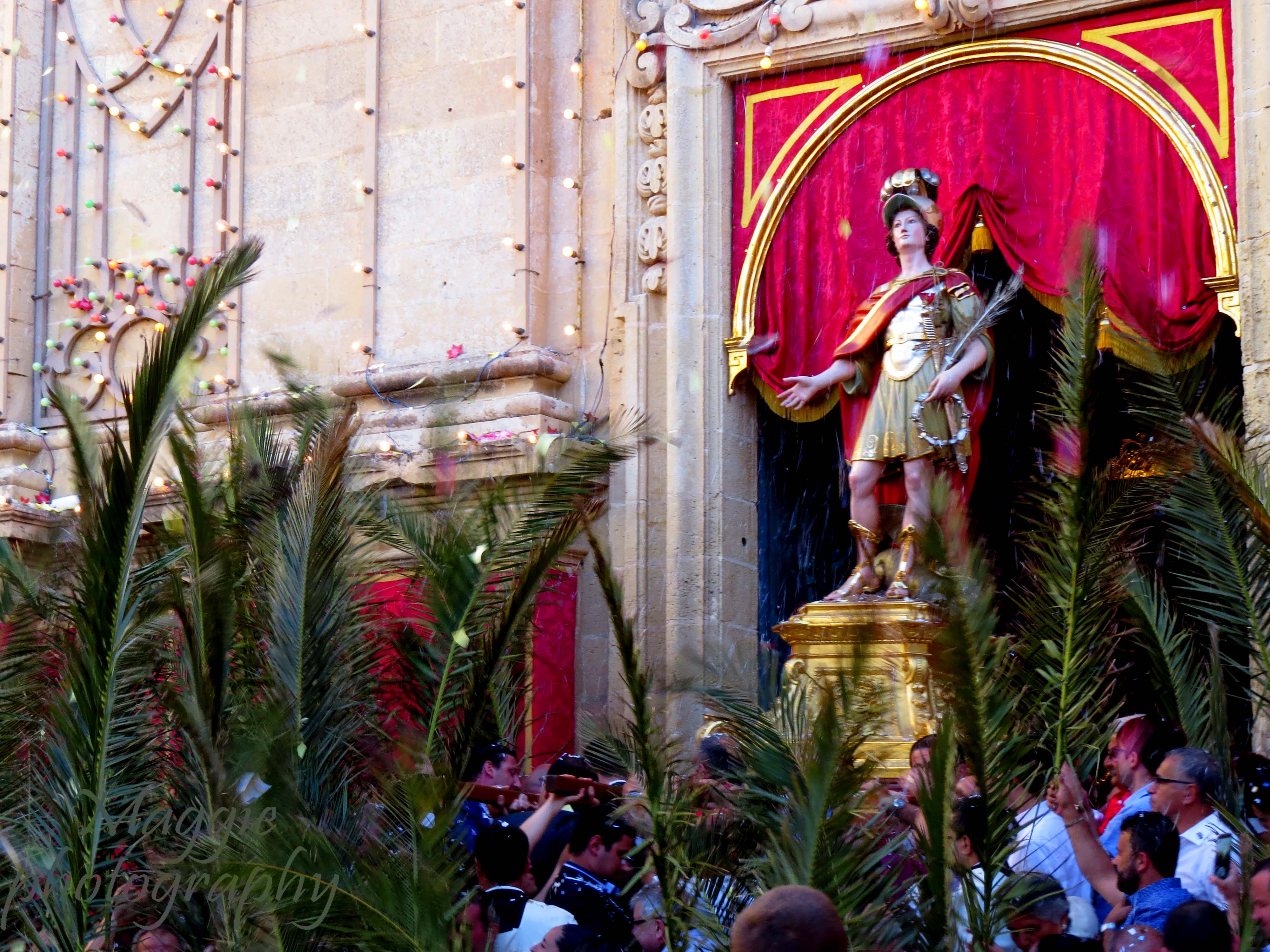 Statue of St George This media is about Maltese cultural property with inventory number 00905.